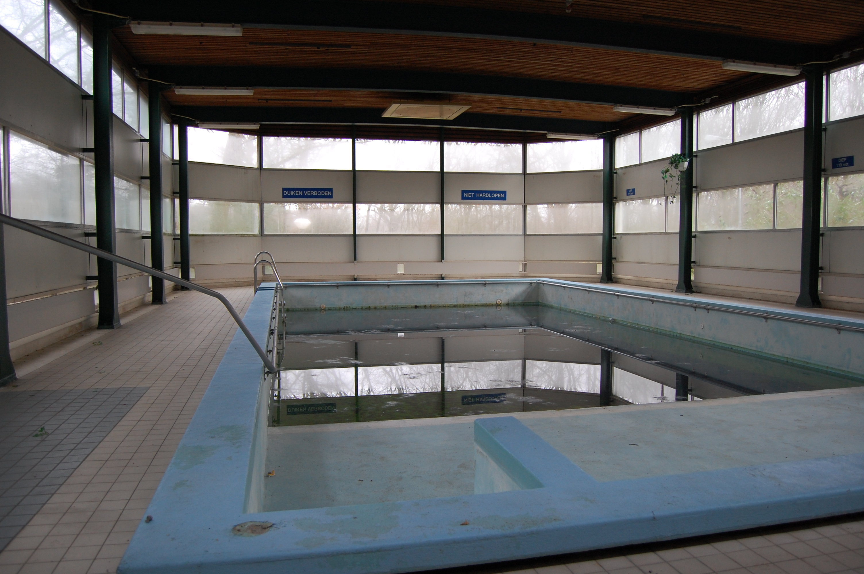 The swimmingpool of the abandoned Sinaï-centre. The sign on the wall says "no diving"